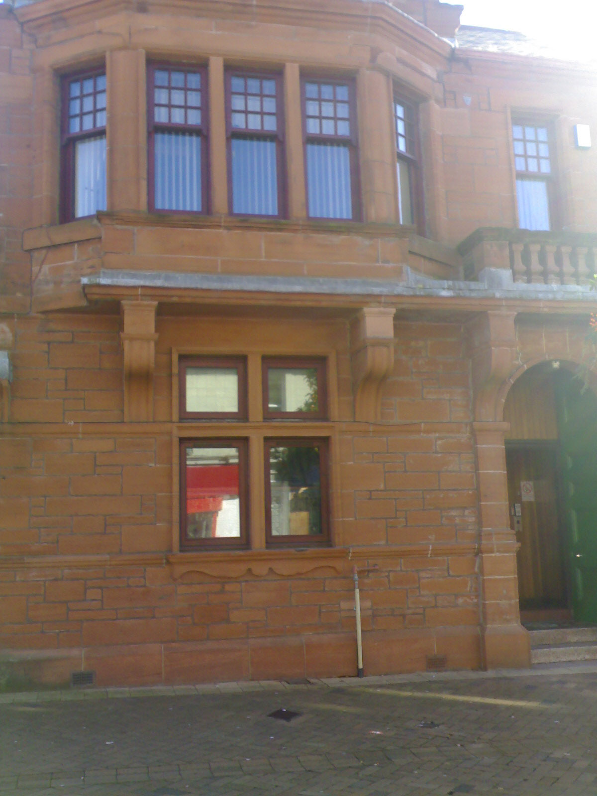 Masonic Lodge 0 in Kilwinning Scotland, Taken with Nokia 6270 mobile phone